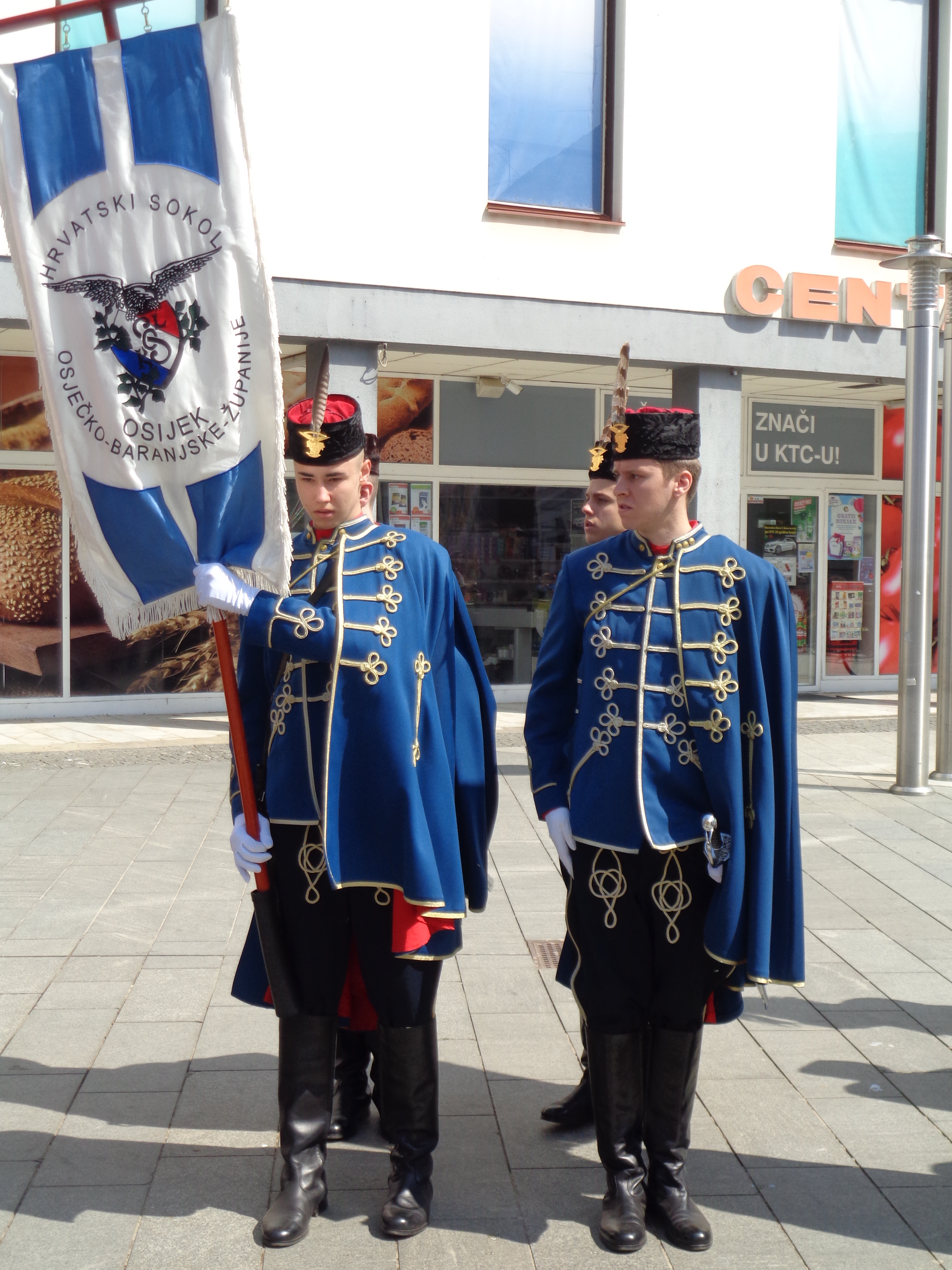 "Croatian Hawk" Osijek, a historical military unit from the Osijek-Baranya County, Croatia, during The Medjimurje County Day celebration (30th April 2017) in Čakovec